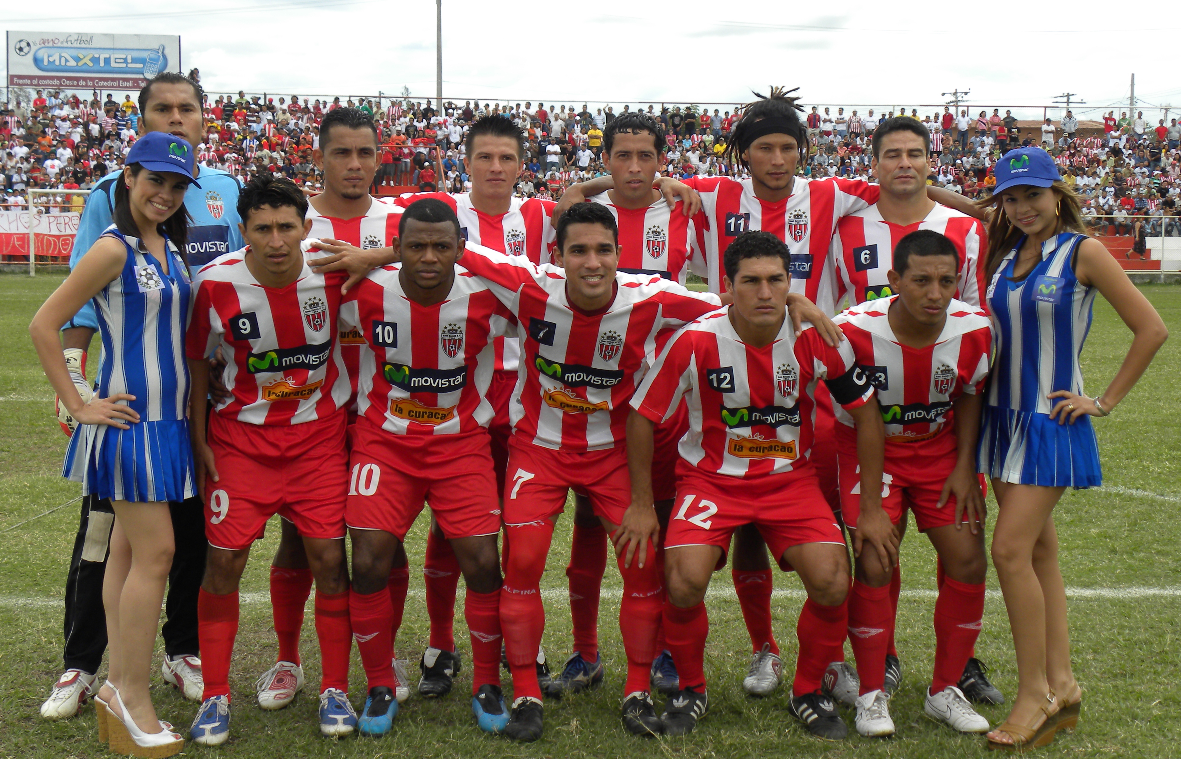 Real Estelí, current national champions and the most popular football team in the decade